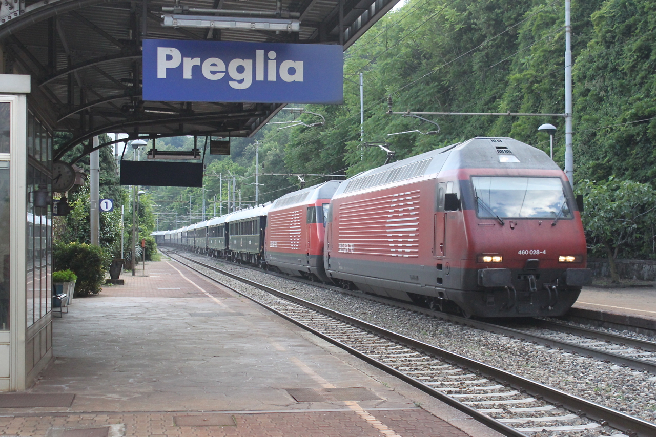 SBB CFF FFS Re 460 028-4 ahead of Venice-Simplon-Orient-Express at Preglia.